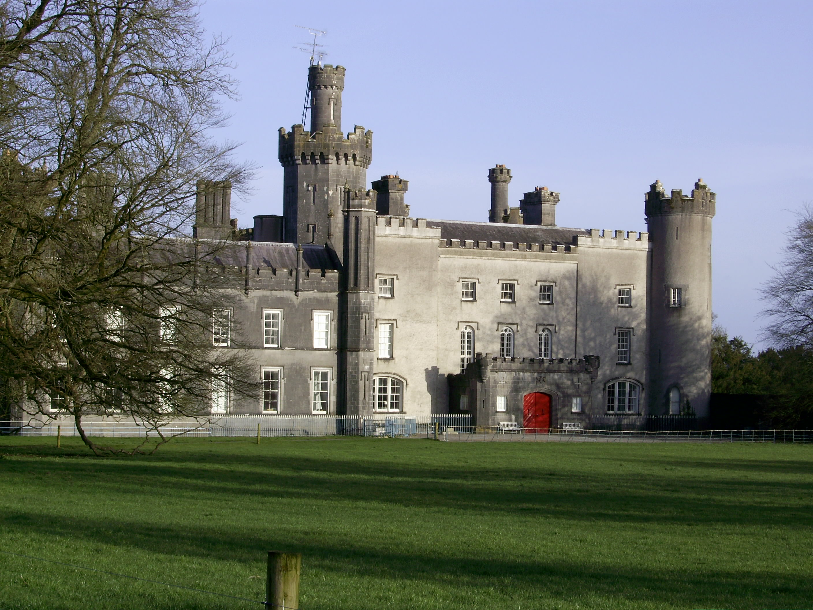 Tully-Nally-Castle_03.jpg